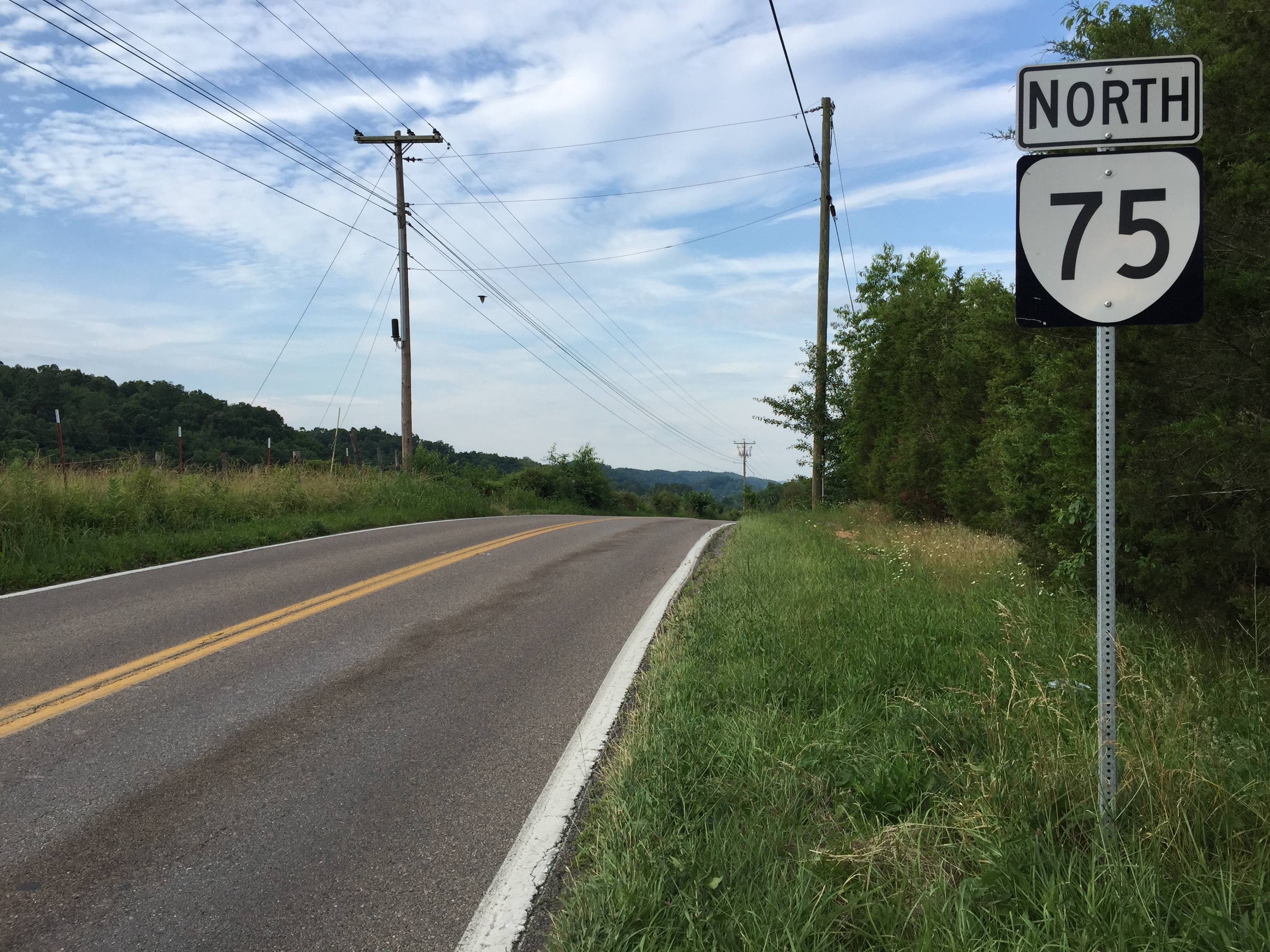 View north along Virginia State Route 75 (Green Spring Road) near Painter Creek Road in southern Washington County, Virginia